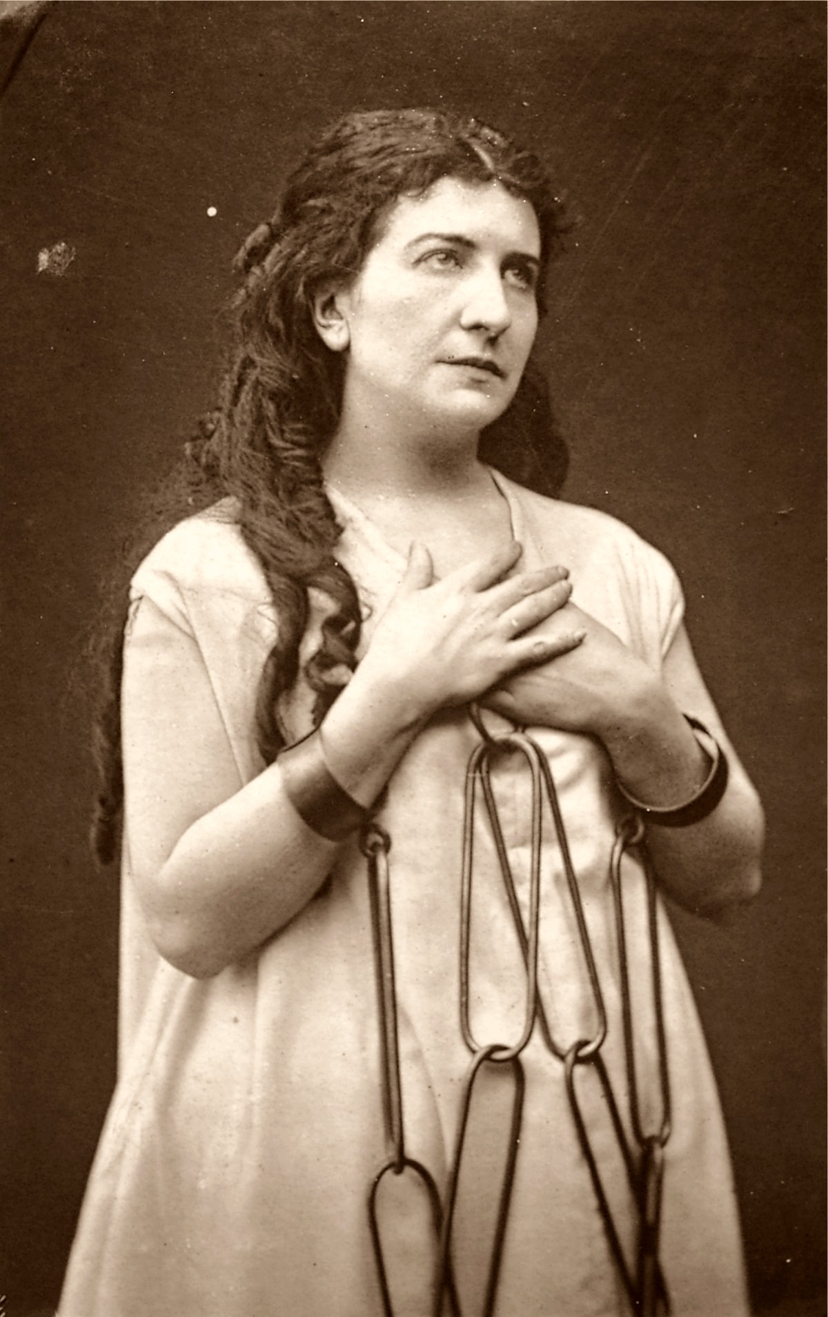 Lucy Genevieve Teresa Ward 1837-1922, America born English Opera Singer and Actress.